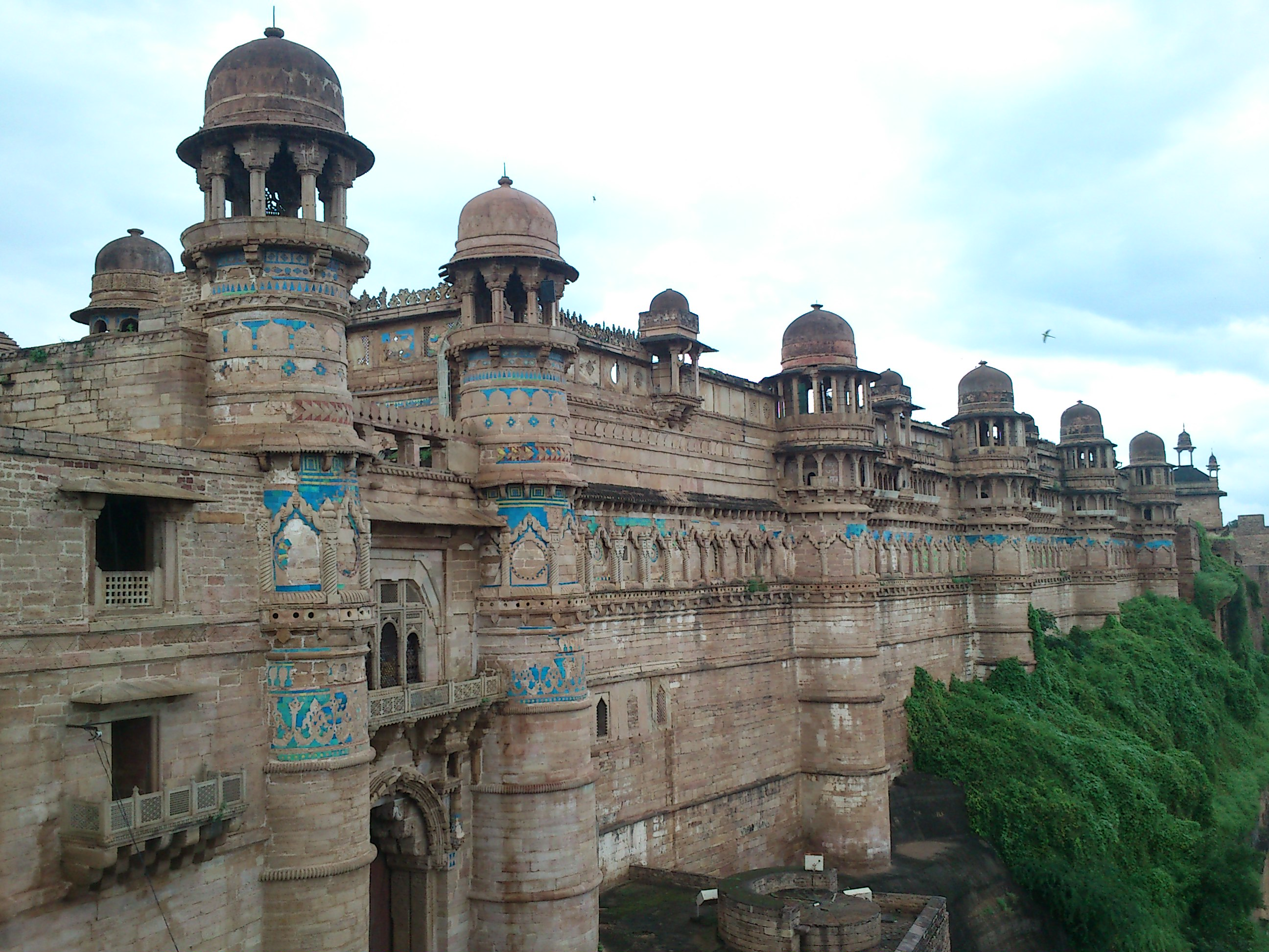 this is the side view of gwalior fort taken from the front side